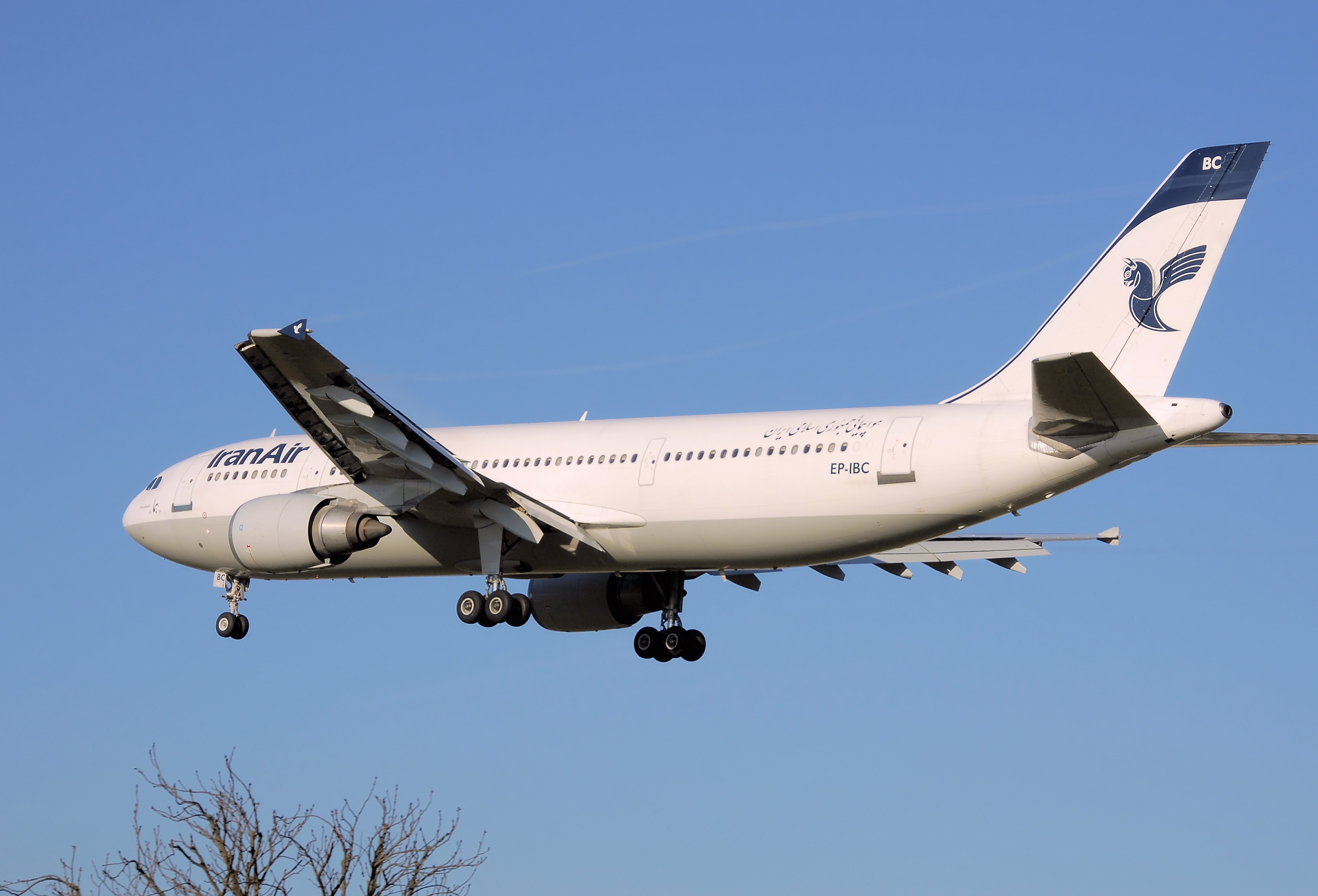 Iran Air Airbus A300B4-600 (EP-IBC) lands at London Heathrow Airport, England. Notice two faint white wavy trails above the fuselage, looking like trails from distant aircraft. The top one is being shed from somewhere near the winglet (at the wing tip) and the lower one is coming from the outboard end of the outer flap.